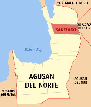 Map of the Agusan del Norte showing the location of Santiago